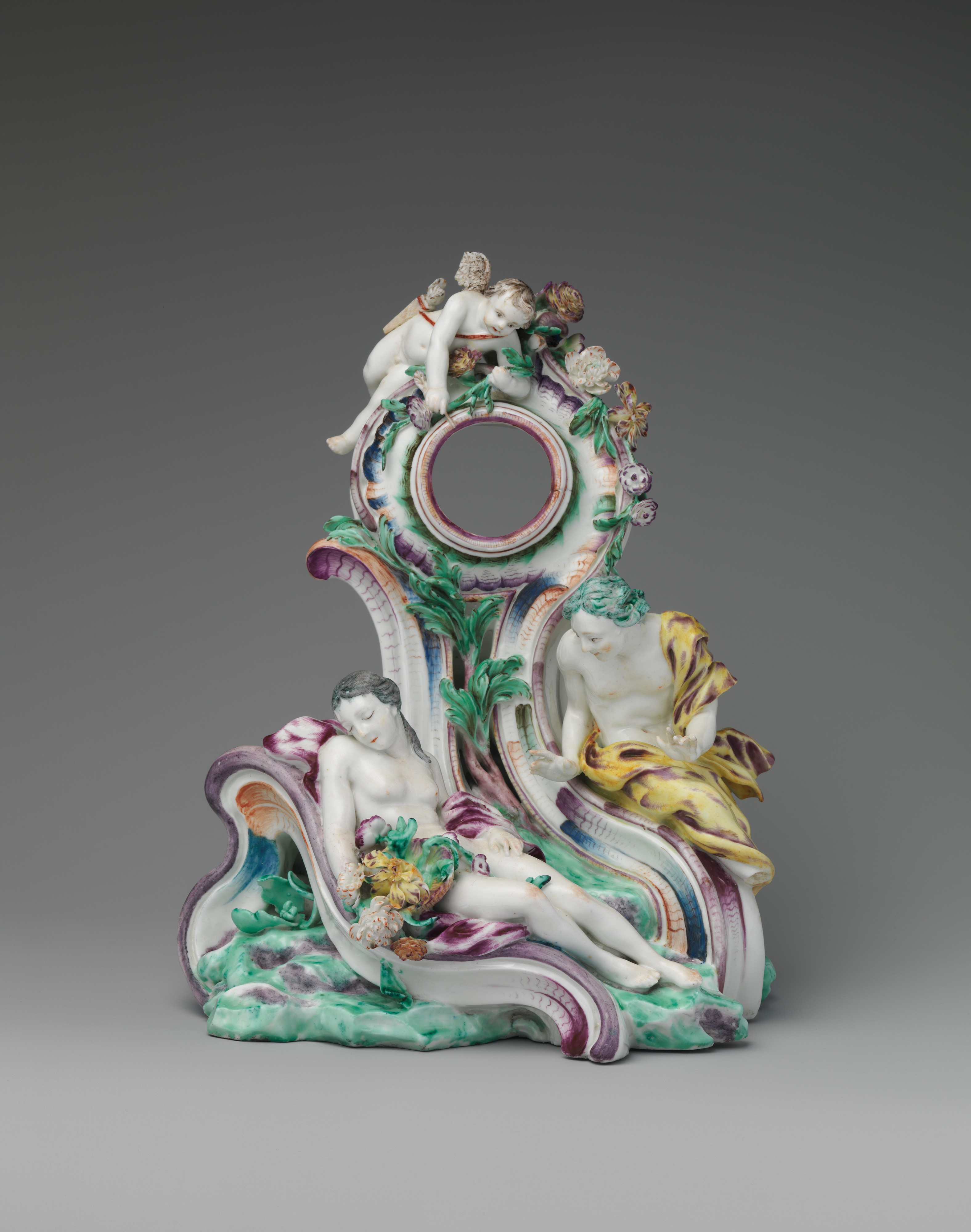 possibly Belgian, Tournai; Watch stand; Ceramics-Porcelain